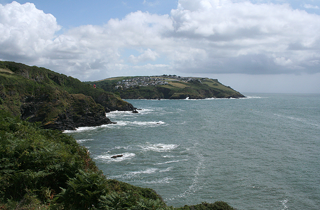 Fowey: towards Polruan Near Coombe Hawne, Fowey parish, looking towards the mouth of the Fowey estuary with housing at the top of Polruan village beyond